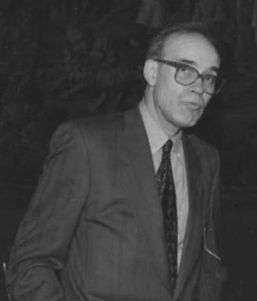 Bernard Decomps, French physicist.